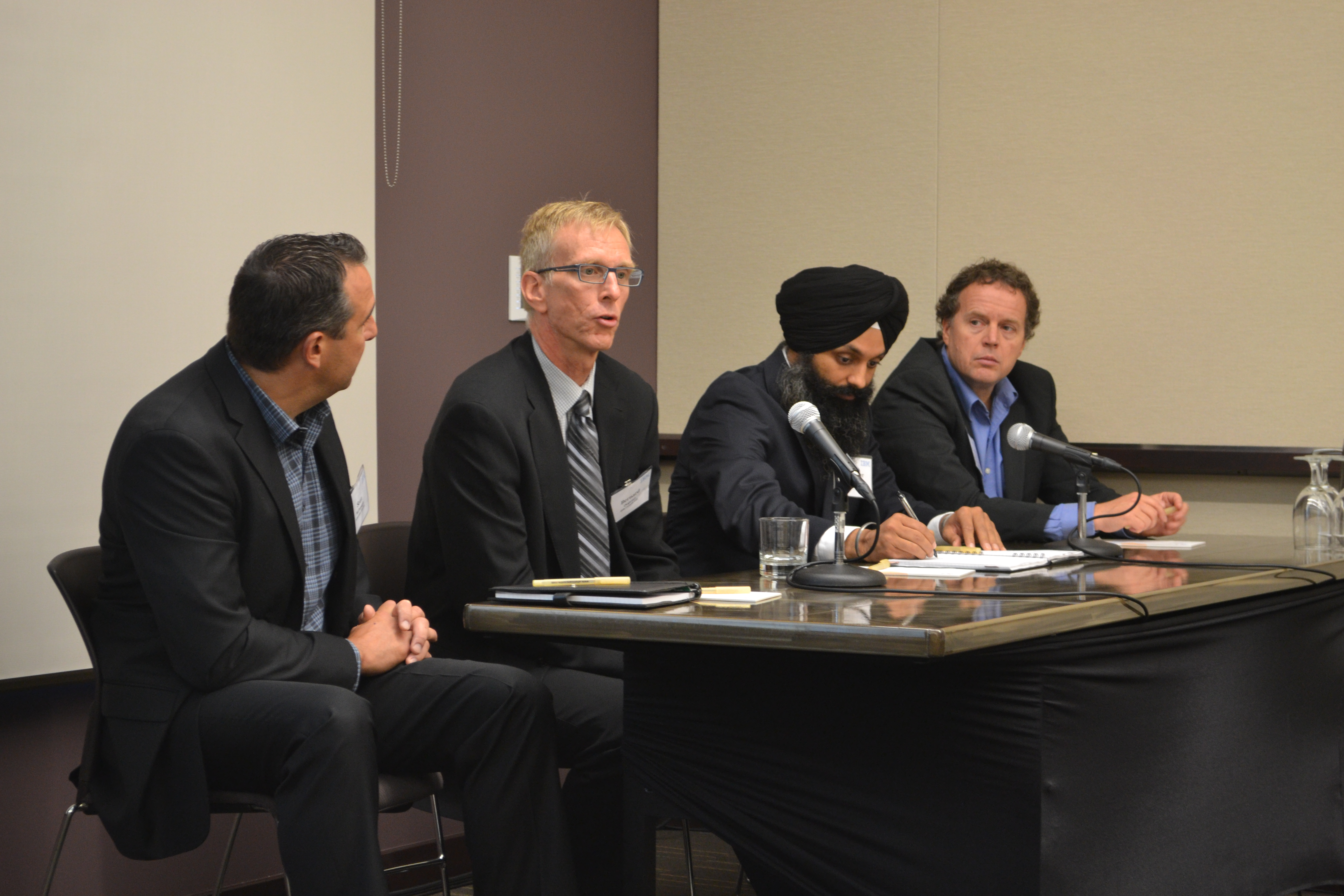 IBM Portable Modular Data Center Tour - Panel Discussion.Left to Right: Sean McDonagh (APC Schneider Electric), Bernard Oegema (IBM), Satwinder Singh (Stantec), Chris Loken (SciNet, U of Toronto)